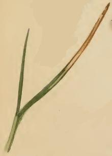 Stainton’s Natural History of the Tineina (1855–1873): Elachista argentella mined leaf blade of Bromus erectus